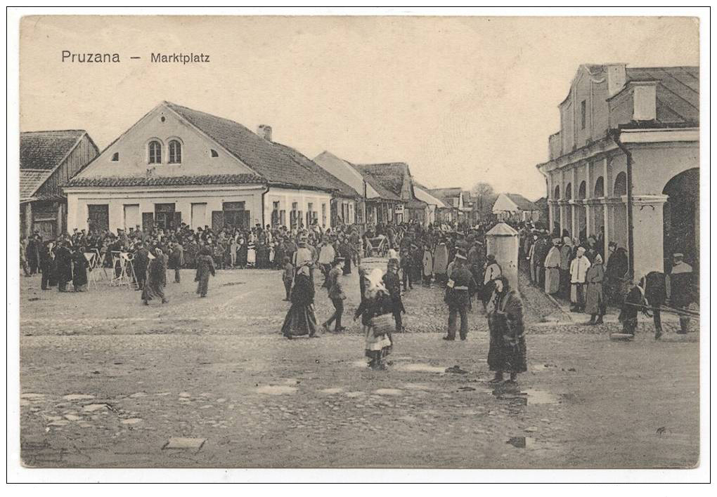 Market square and Belyja Lawki (on the right) in Pruzhany